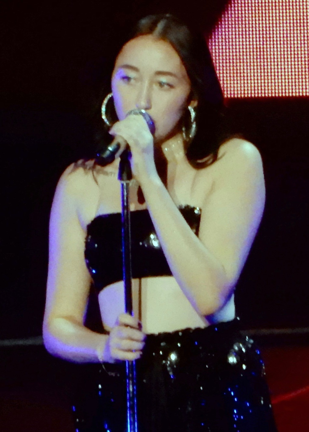 Noah Cyrus performing at Madison Square Garden while opening for Katy Perry, 2017